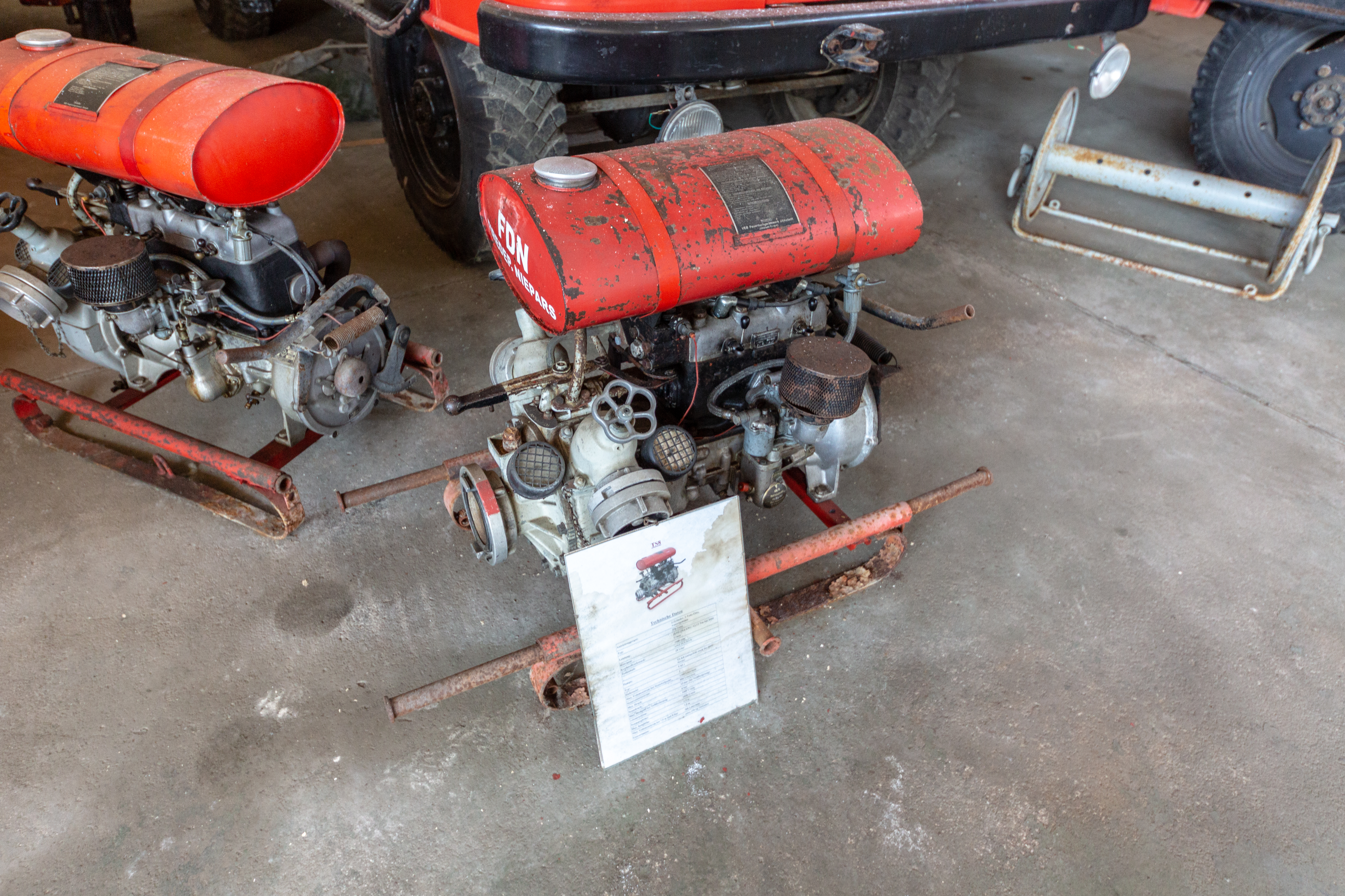 Pfingsttreffen Pütnitz 2018